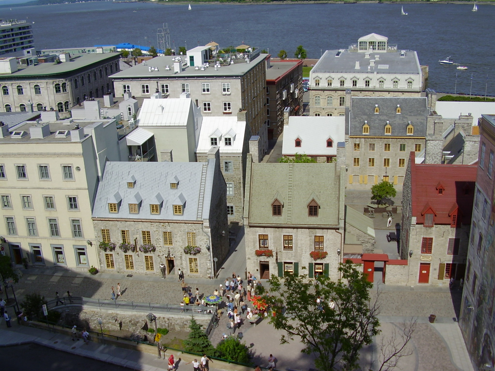 View of the Lower Town, from the Upper Town, Place Royale (Québec) near the Château Frontenac.